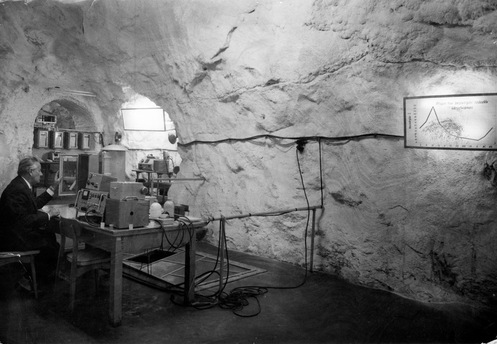 The „temple of science“ in Gellért Hill Cave